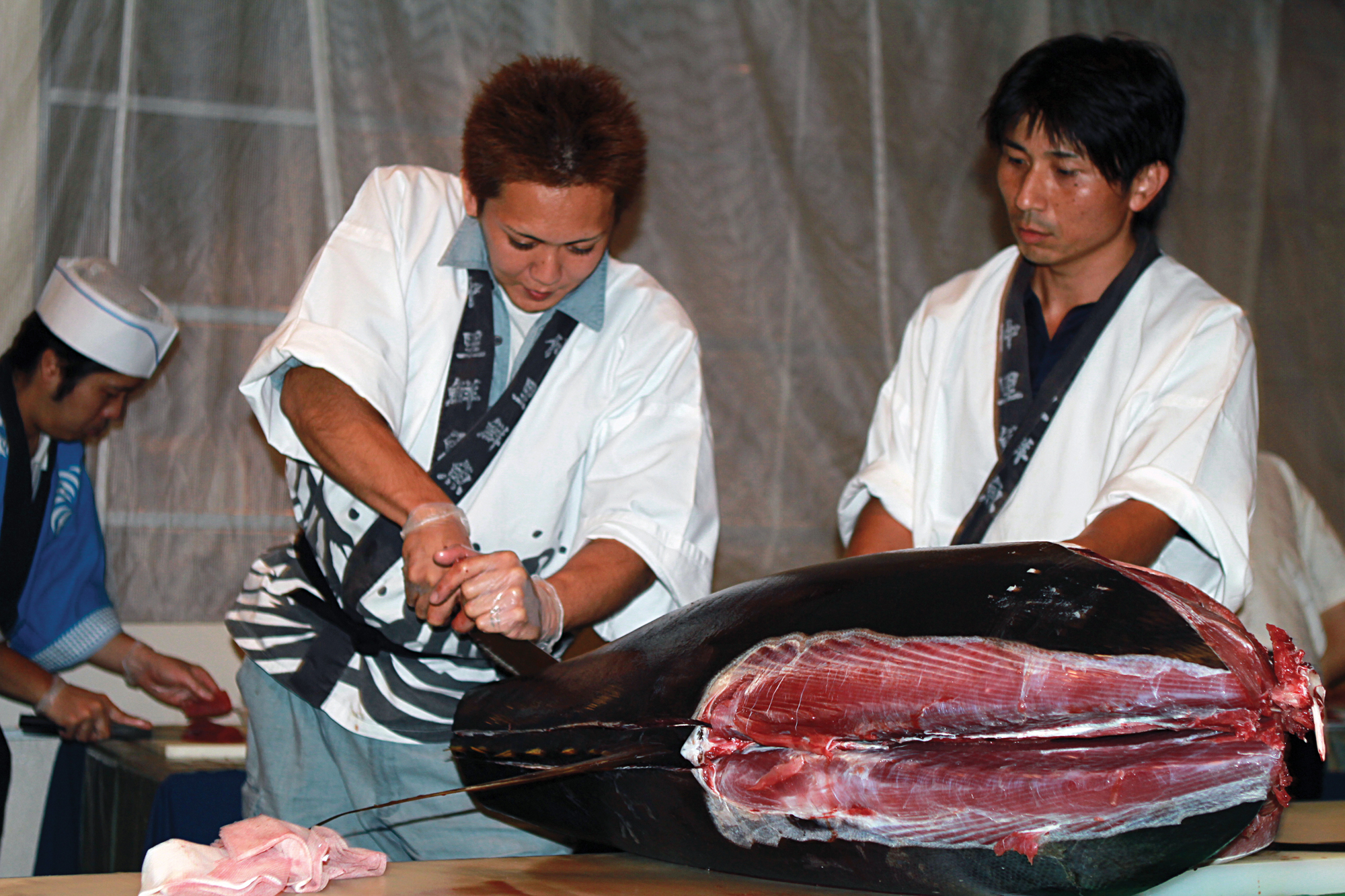 Sushi chefs from Ginowan City prepare a freshly caught, 150-pound tuna for the guests of the Ginowan City moon-viewing sushi party at the Habu Pit on Marine Corps Air Station Futenma Sept. 9. The party was hosted by the Ginowan City Society of Commerce and Industry for the annual moon viewing season.